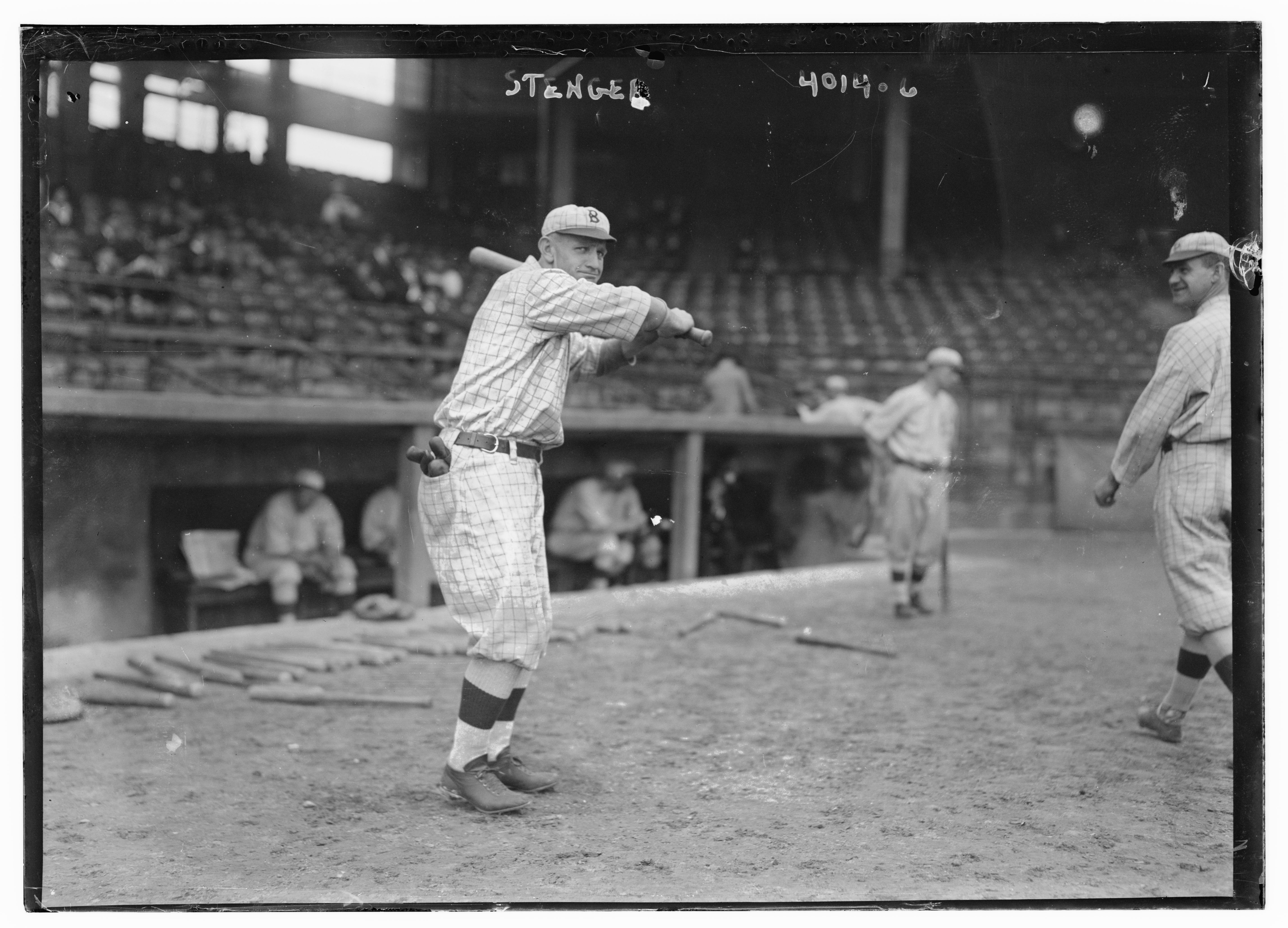 Bain News Service,, publisher. [Casey Stengel, Brooklyn NL (baseball)] 1916. 1 negative : glass ; 5 x 7 in. or smaller. Notes: Original data provided by the Bain News Service on the negatives or caption cards: Stengel, Bklyn, 1916. Corrected title based on research by the Pictorial History Committee, Society for American Baseball Research, 2006. Forms part of: George Grantham Bain Collection (Library of Congress). Format: Glass negatives. Repository: Library of Congress, Prints and Photographs Division, Washington, D.C. 20540 USA, General information about the Bain Collection is available at Higher resolution image is available (Persistent URL): Call Number: LC-B2- 4014-6